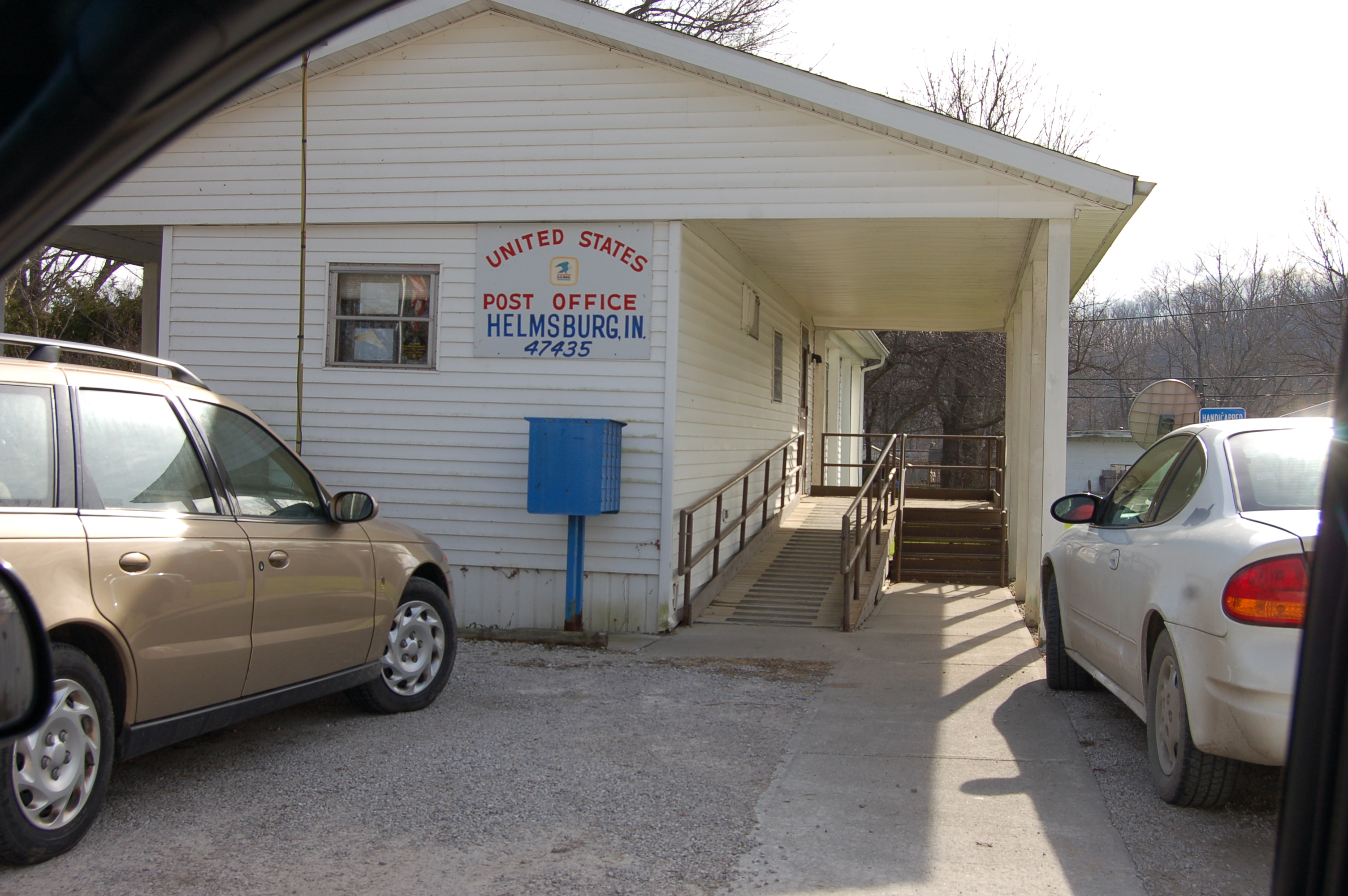 Post Office in Helmsburg, Indiana, USA.